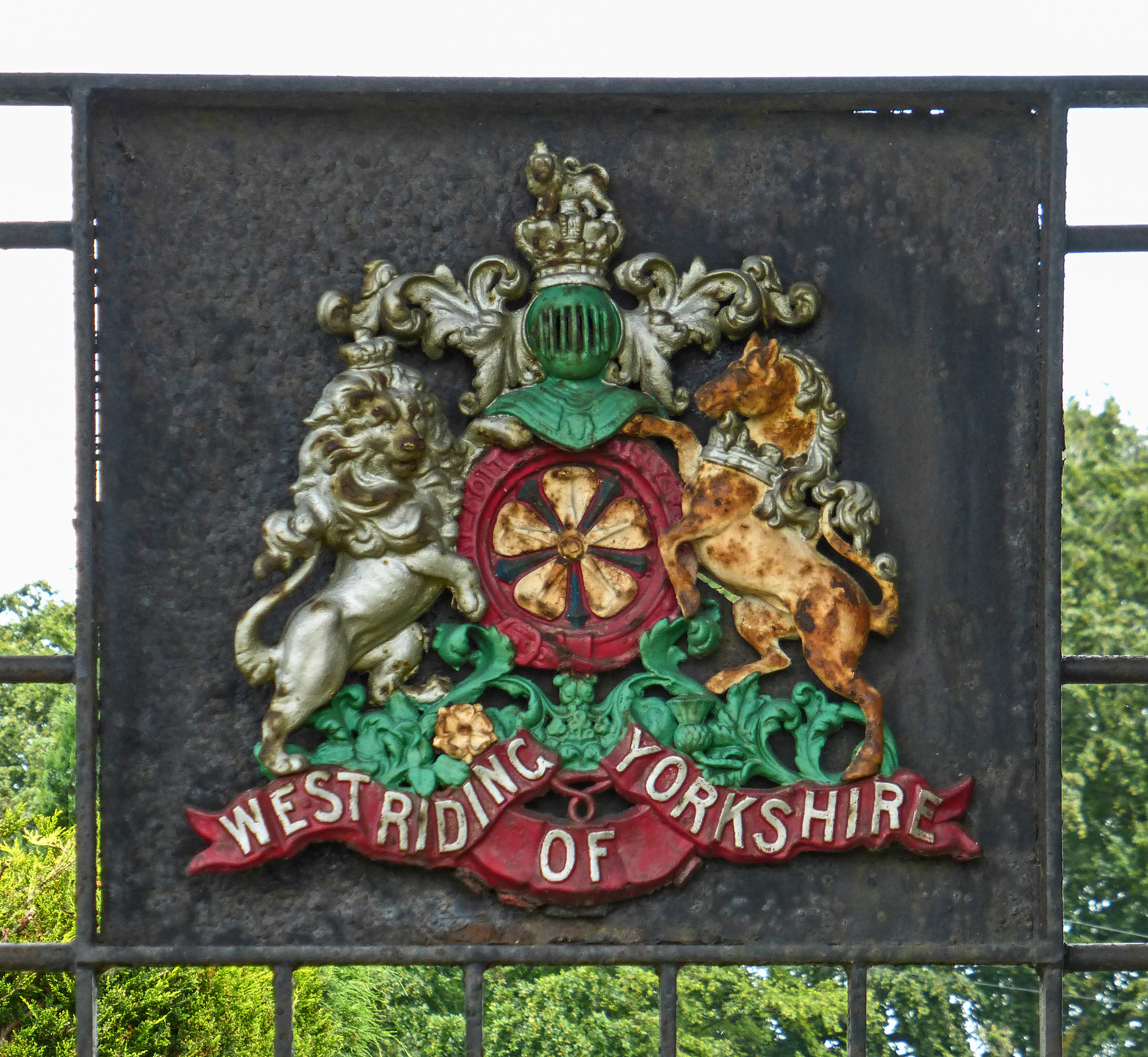 Coat of arms of the former West Riding of Yorkshire (or at least one variation of) seen at the gatehouse on Boston Road in Micklethwaite, Wetherby, West Yorkshire. Taken by Flickr user:Tim Green aka atoach on Sunday the 6th of July 2014.